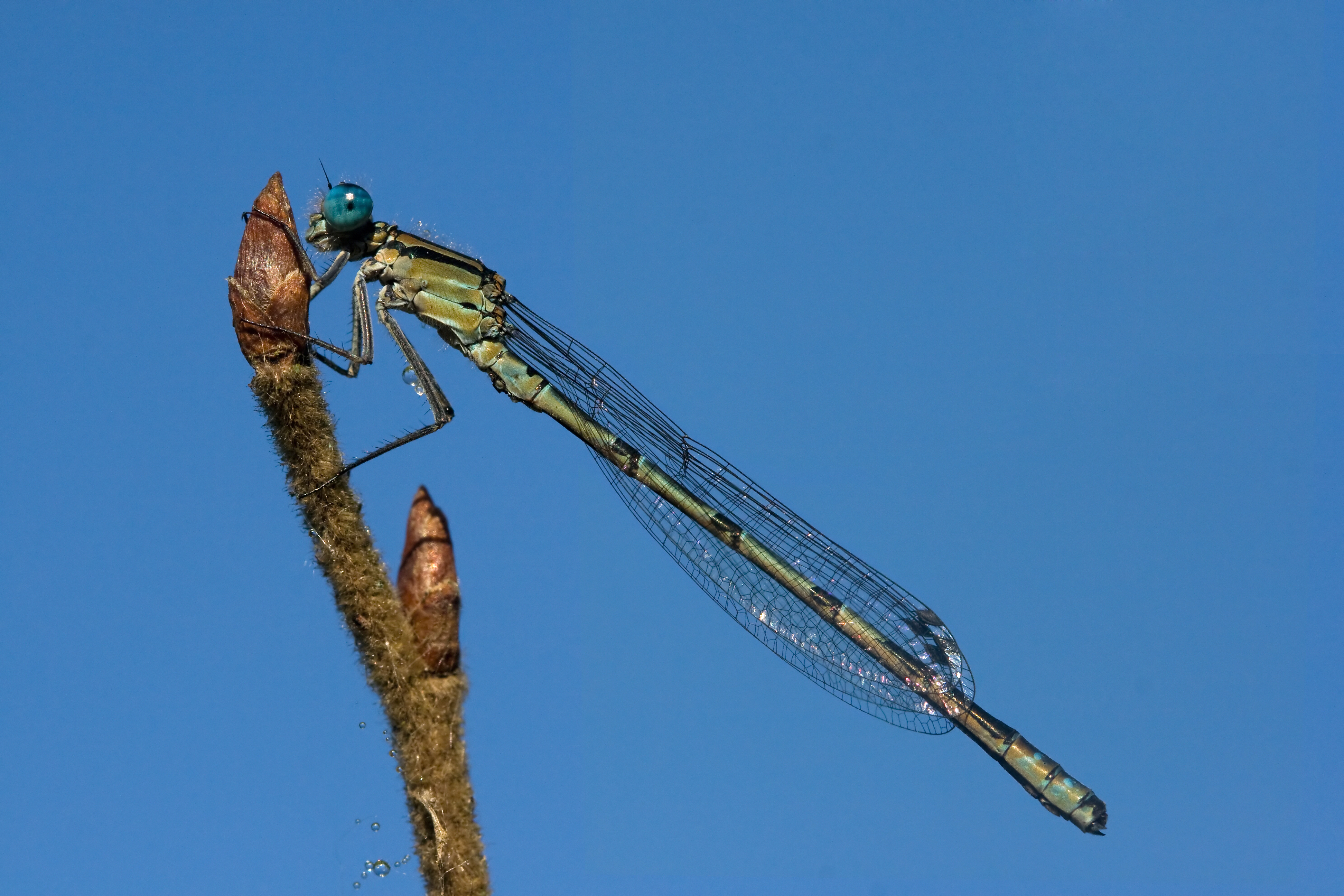 A male Common Blue Damselfly (Enallagma cyathigerum), near Schleswig, northern Schleswig-Holstein. This specimen shows a very pronounced cold colour, since this effect occurs only at low temperatures, it is likely to warm up faster by the higher absorption of solar radiation in the dark colour phase. The photo was taken on 20 May 2011 at 7.31 clock in the morning, according to information from an online weather service, the night temperature in the nearby town of Schleswig was 4,5 °C, the exact temperature of the microclimate at the photo location could vary slightly. The fully coloured blue eyes and the remaining colour of chest and abdomen shows that this is no immature specimen.